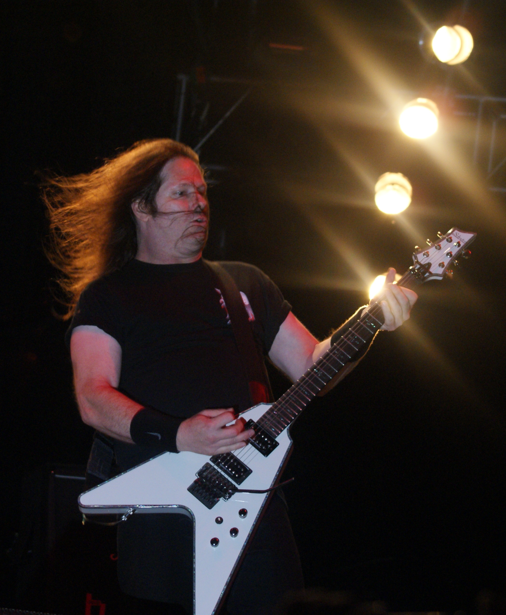 Gary Holt of Exodus